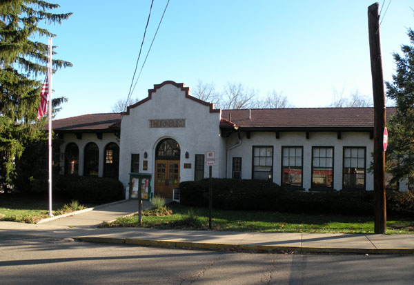 Picture of the Community Center in the Thornburg Historic District of Thornburg, Pennsylvania, on November 14, 2009. There is a sign on the Community Center that says the following: "Thornburg National Register Historic District - Thornburg is a creation of 1899, when Frank and David Thornburg formed the Thornburg Land Company to develop 250 acres of hillside farmland. In 1982, Lower Thornburg was designated a National Historic District. It is notable as a document of the nationwide movement in community planning and landscape design at the turn of the century." I saw many nice, old homes in Thornburg. Also, it seemed that all of the streets were named after well-known colleges. Thornburg Historic District is listed on the National Register of Historic Places.